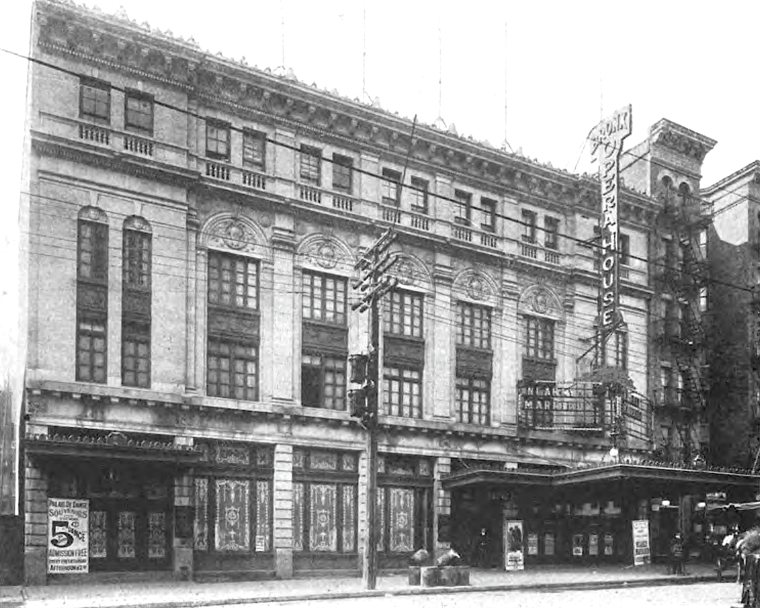 The Bronx Opera House, East 149th Street, Bronx, New York. Sign above entrance reads: Nearly Married, the current attraction.